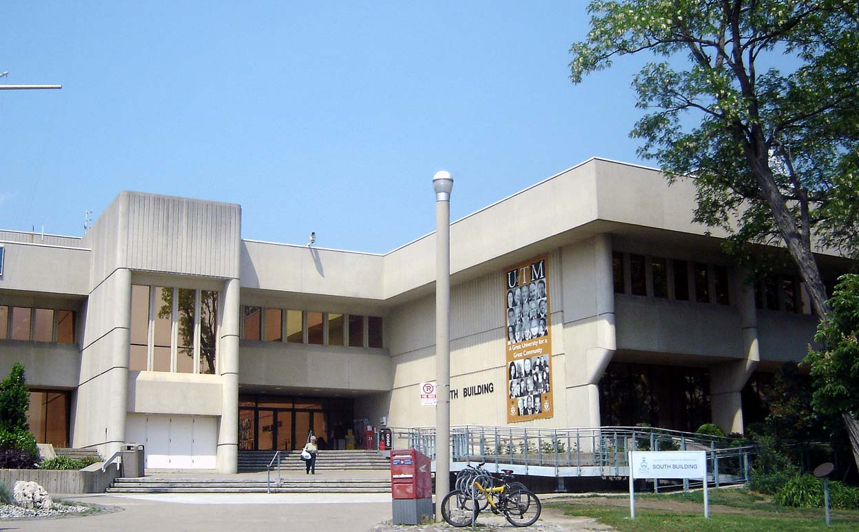 University of Toronto, Mississauga Campus sikander 20:19, Jun 23, 2005 (UTC)